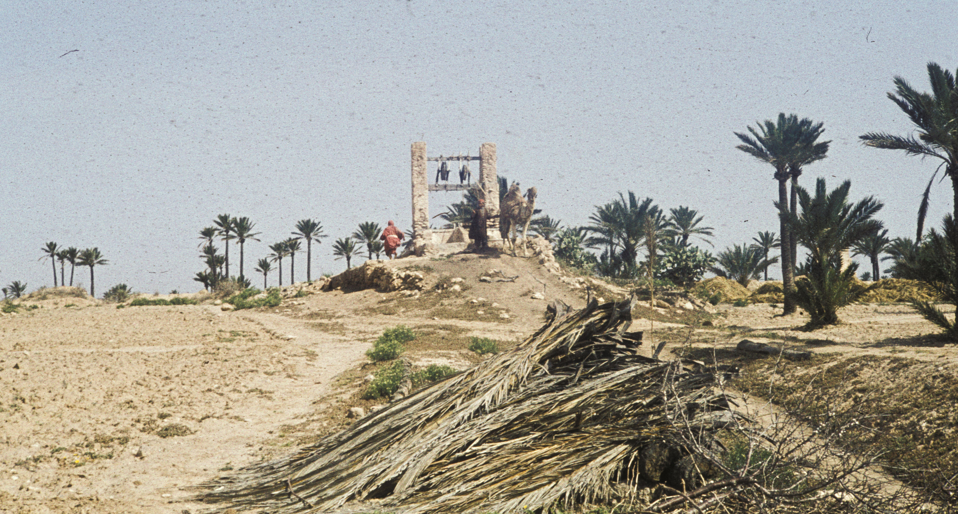 Camel drawing water from a well, Djerba island, Tunisia. This animal is raising a leather bucket (Delou)... A water-well with two pulleys is a great exception !